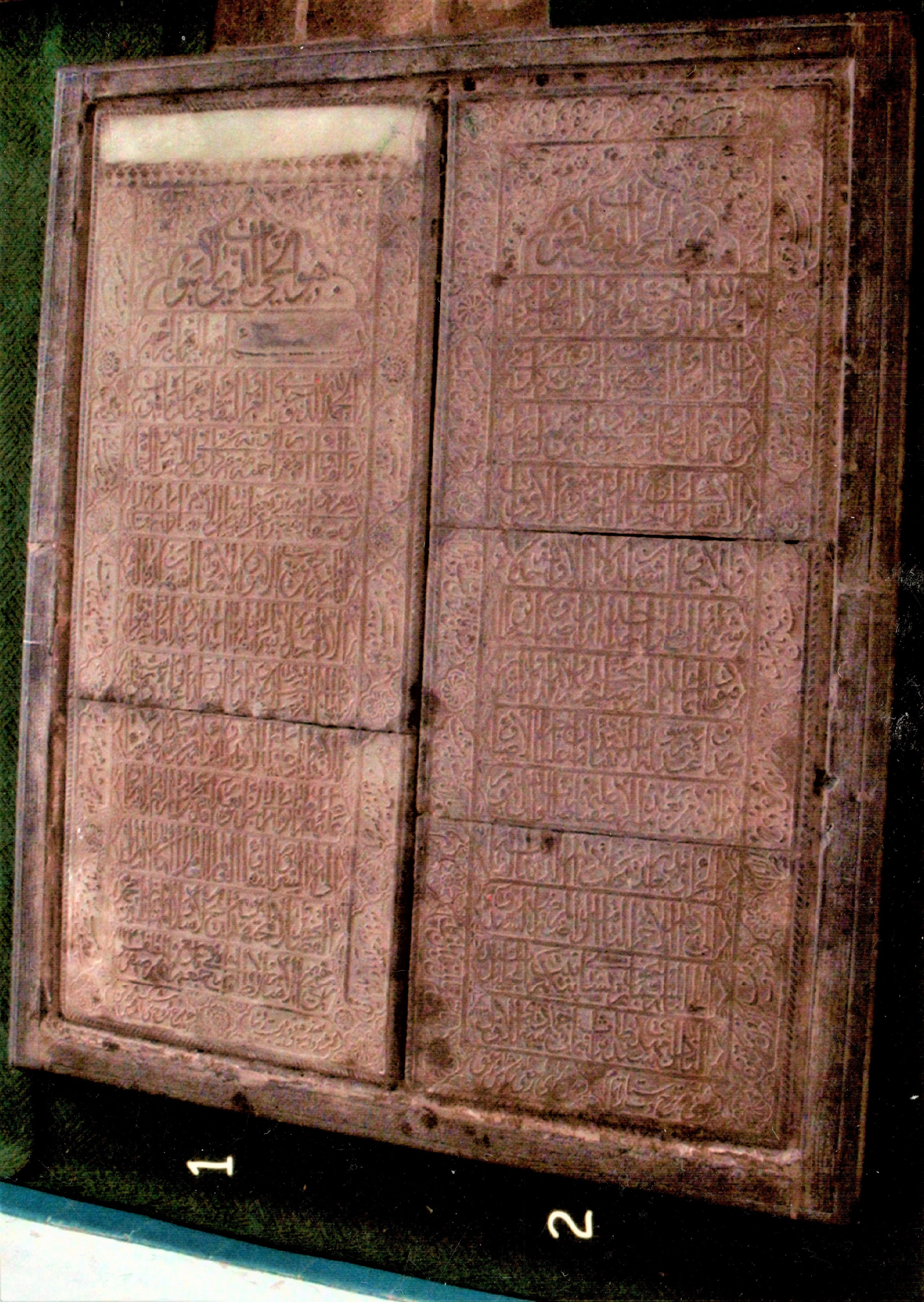 Gravestone of Muhammad Rahim II Sheikholeslam and his wife Hoori Nasa Beigom 1-Gravestone of Hoori Nasa Beigom (? -1833/Sep) – (? -1249 A.H.) daughter of Seiyd Mehdi 2-Gravestone of Muhammad Rahim II Sheikholeslam (? -1833/06/27) – (? -1249 A.H.) Location of Grave-site: Agha Hossein Khansari mausoleum, Takht-e Foulad Cemetery, Isfahan